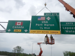 New signs being erected along I-94/I-69 in Port Huron, Michigan, United States